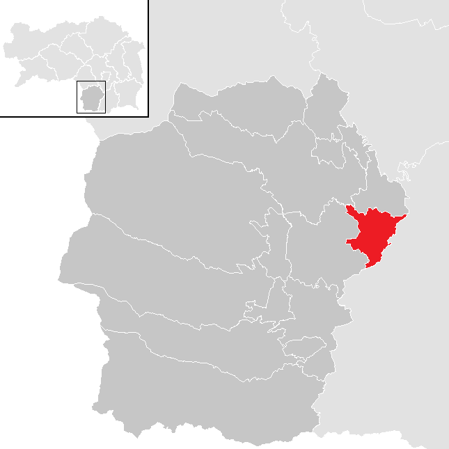 District Deutschlandsberg, Styria, Austria